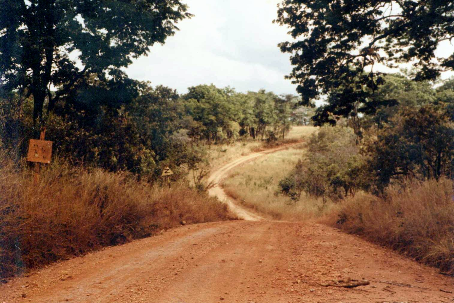 Road from Mikumi to Kilosa